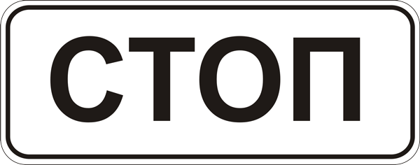 Stopping position.